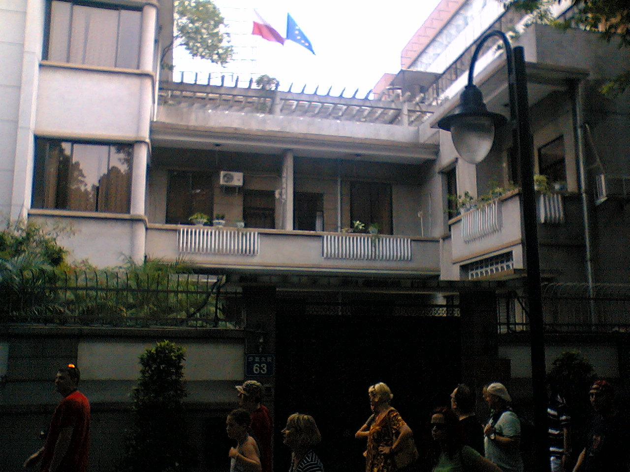 Consulate General of the Republic of Poland in Guangzhou - Guangzhou, 63 Shamian Main Street, 510130